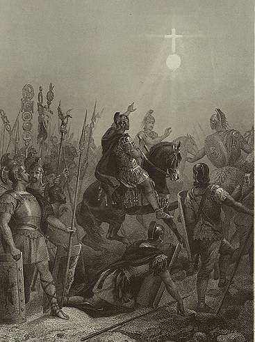 Conversion of Roman Emperor Constantine I (280?-337) at the Milvian Bridge in 312.